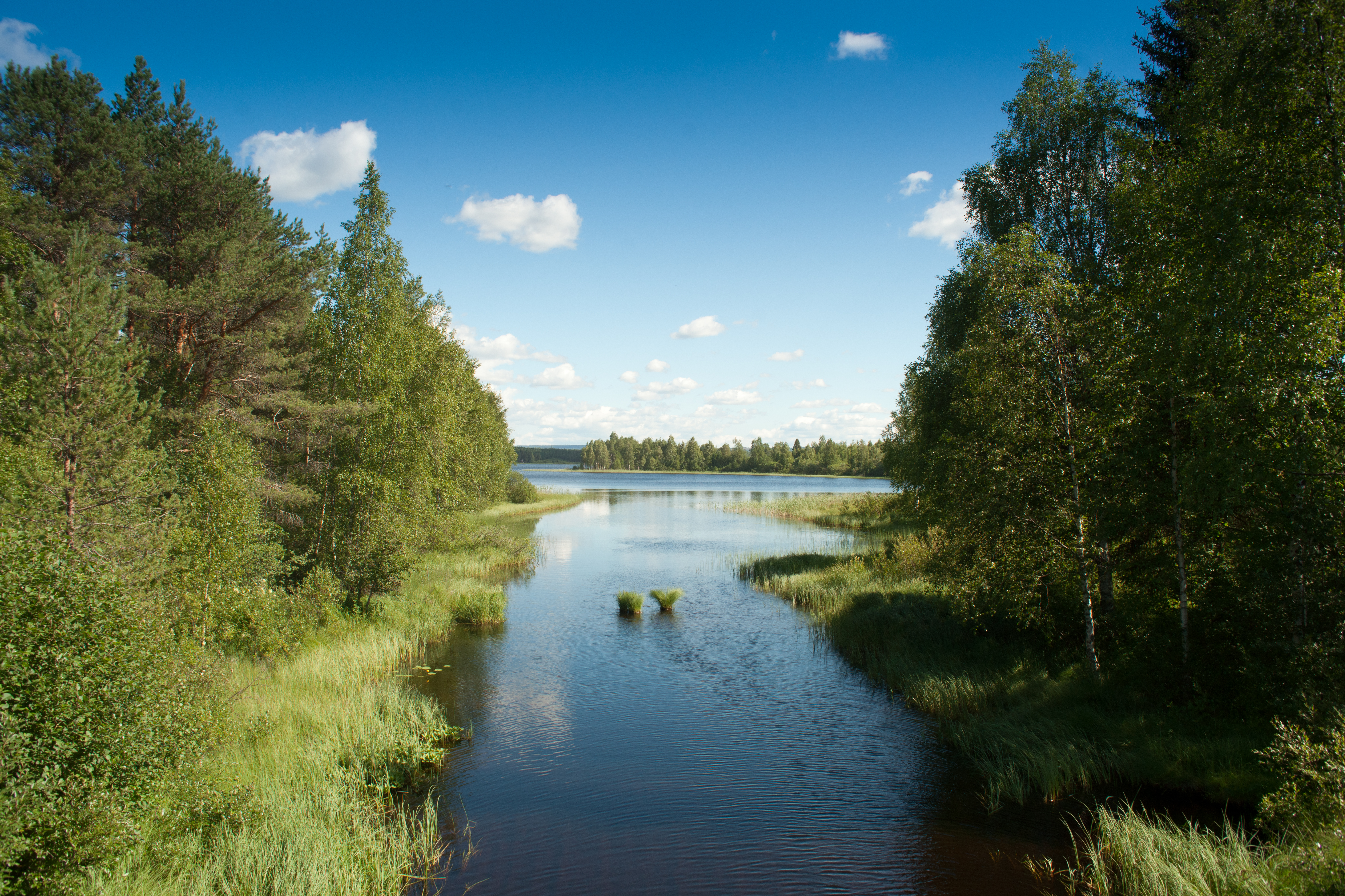 Lake Vihajärvi in Puolanka, Finland